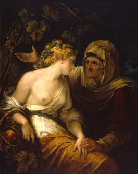 The myth of Vertumnus and Pomona, an oil painting by Richard Hamilton in the Royal Academy, London, 1789